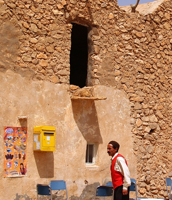 Ksar El Ferch, South of Ghomrassen and North of Tataouine